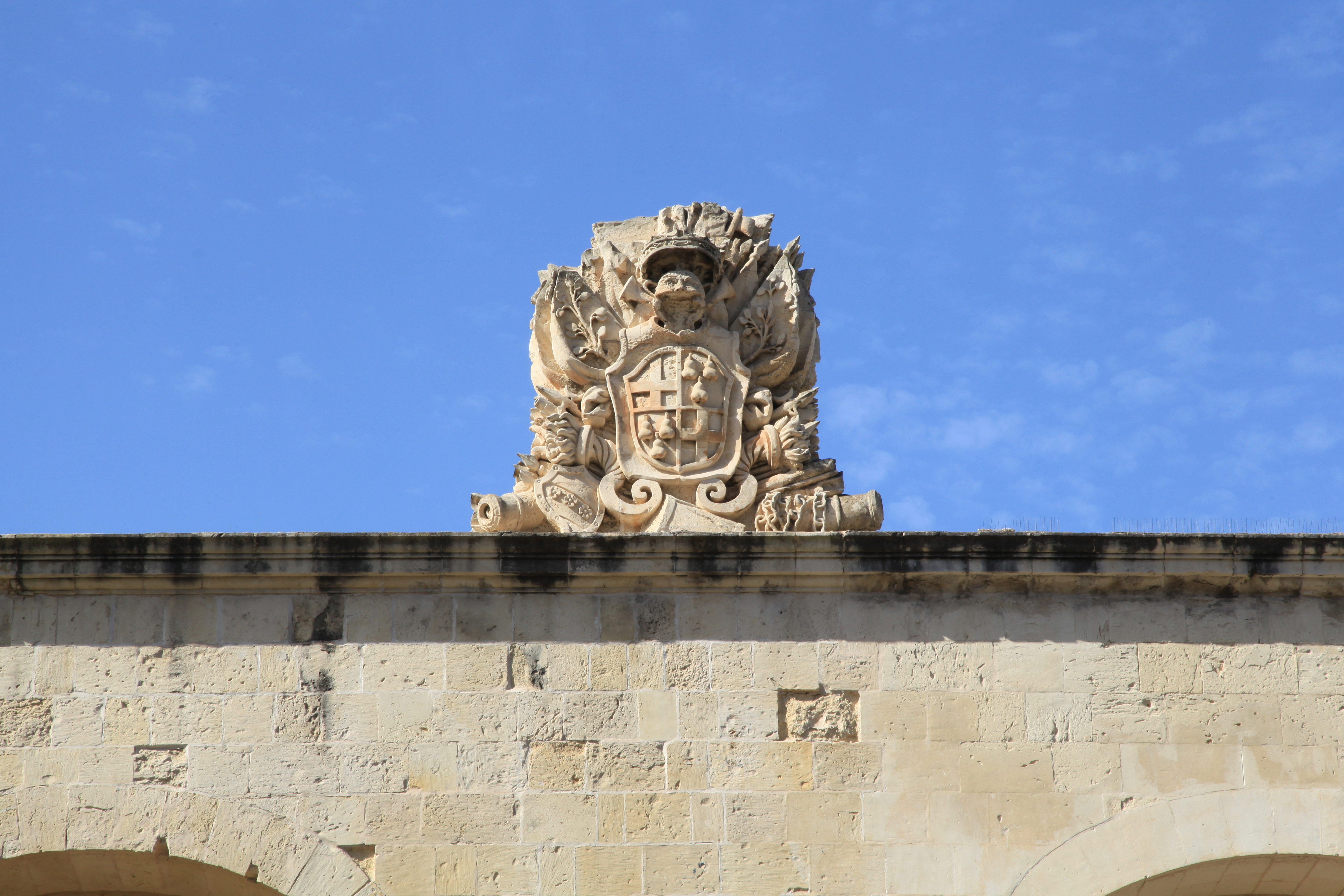 Porte des Bombes, Triq Nazzjonali in Floriana, Malta